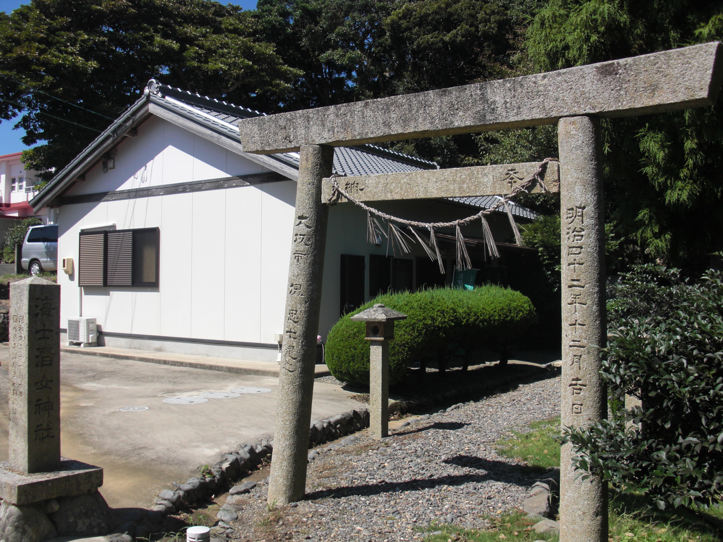 This is the shinto shrine which is called "Ama Kazukime Shrine".